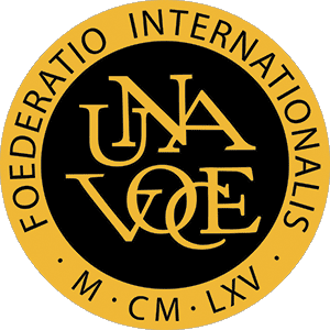 Logo of Foederatio Internationalis Una Voce